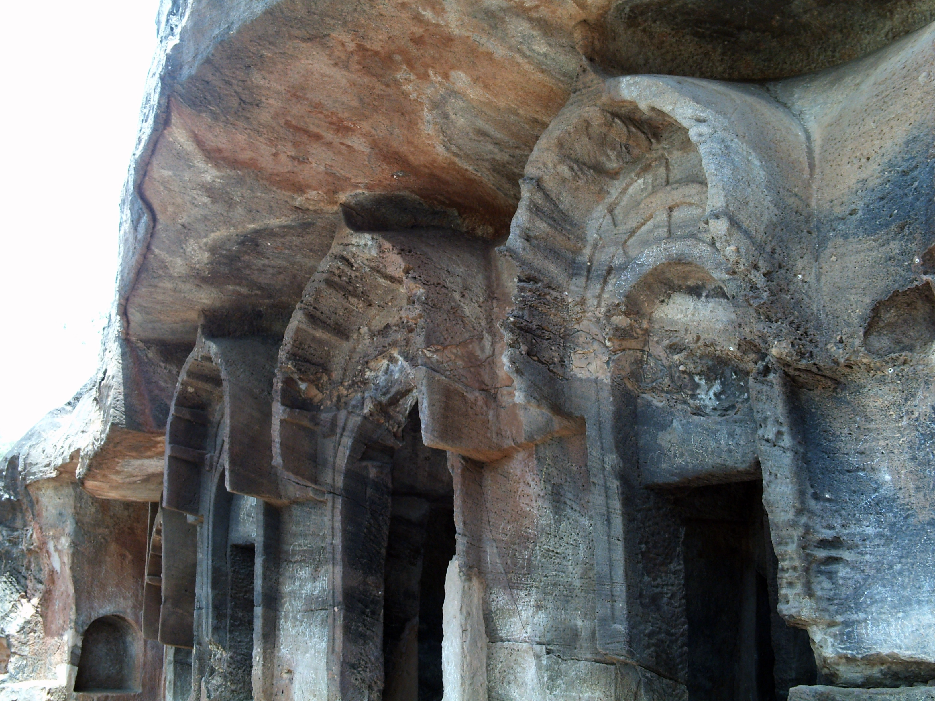 The caves of Archaeological interest on Dharmalingesvarasvami hill